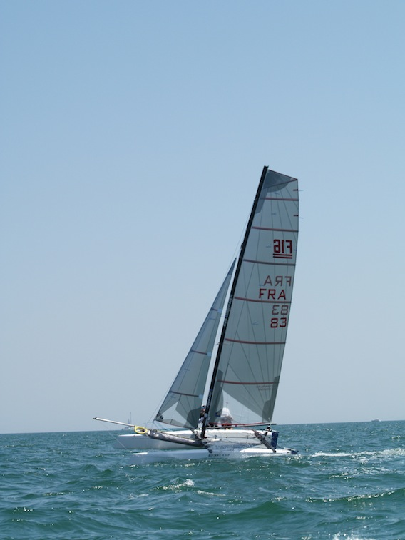 Formula 16 in regatta